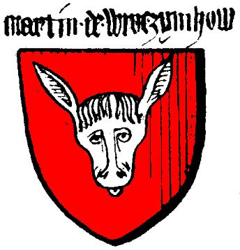 Coat of arms Półkozic in Armorial Toison d'Or